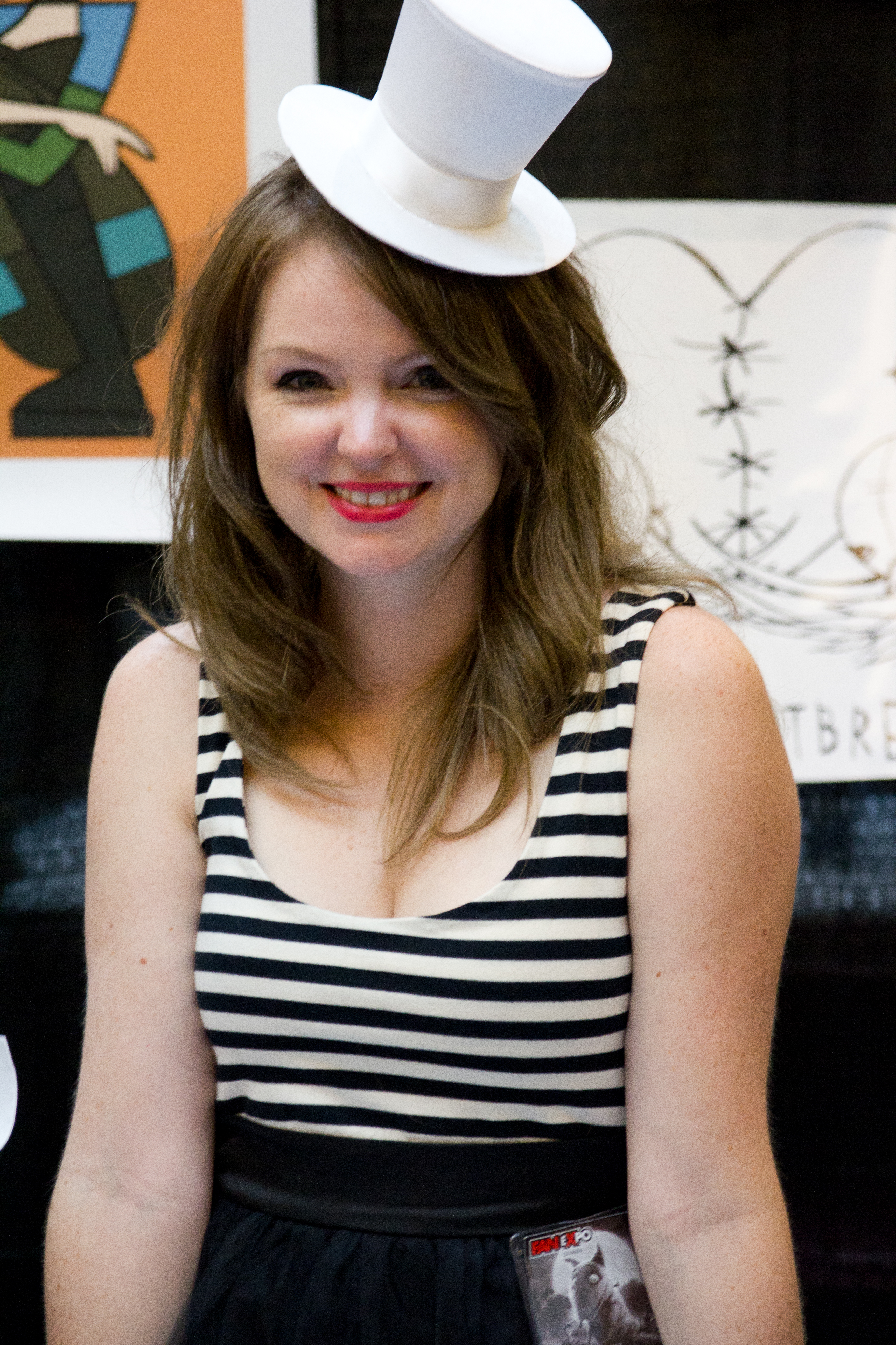 Actress Kristin Fairlie at the 2012 FanExpo Canada